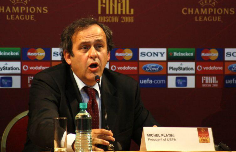 Michel Platini